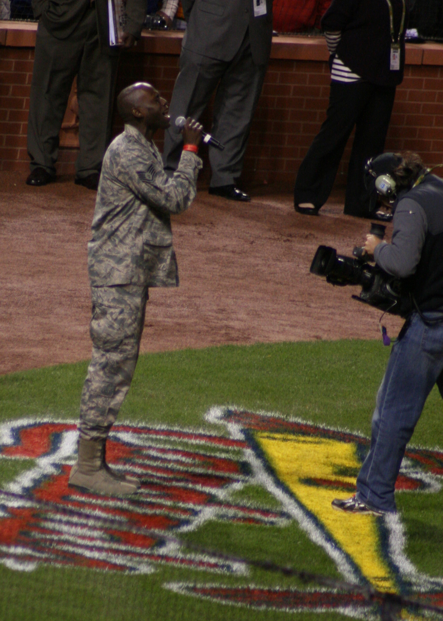 Staff Sgt. Brian Owens, of the 571st Air National Guard Band of the Central States, sings "God Blesss America" during the 7th inning stretch of Game 1 of the 2011 World Series at Busch Stadium, Oct 19. The 571st is based at the 131st Bomb Wing, Lambert Air National Guard Base, Saint.Louis. (Photo by Matthew J. Wilson)